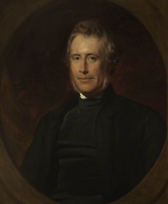 Lord Auckland (1809-1896), Bishop of Bath and Wells